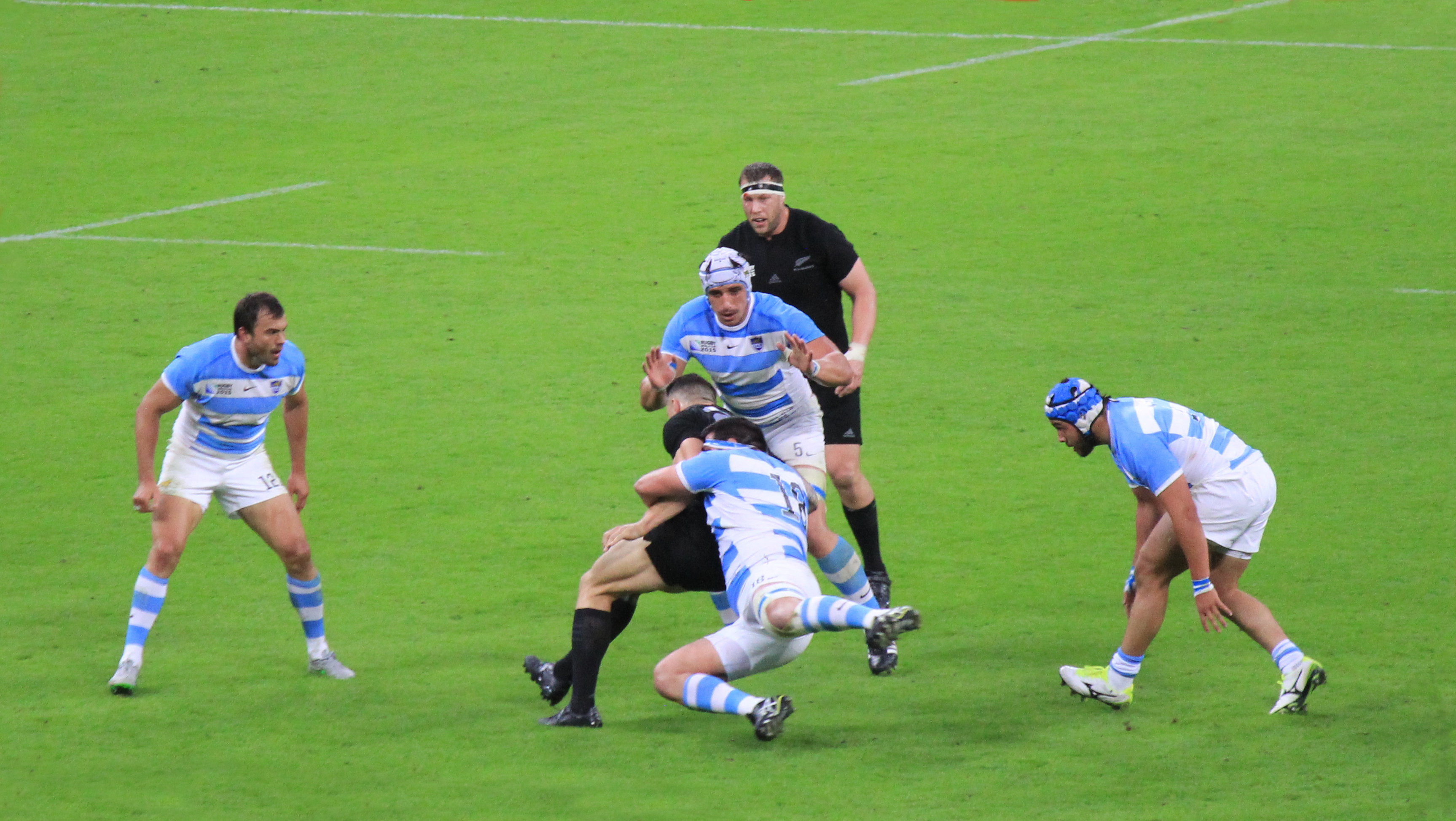 15-09 RWC New Zealand vs Argentina 107